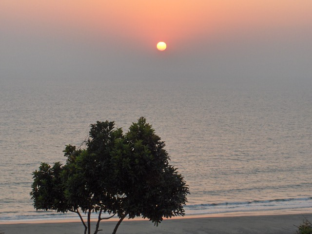 Picture of sunrise at Cox's Bazar at Bay of Bengal